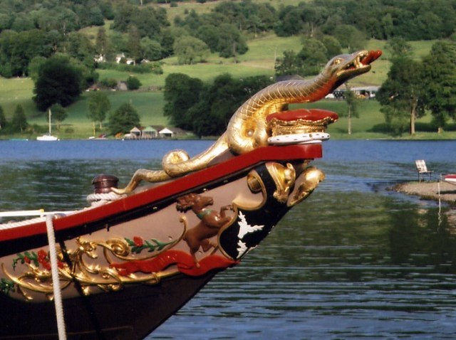 The Gondola The ornate prow of the steam launch 'Gondola' moored on Coniston Water.